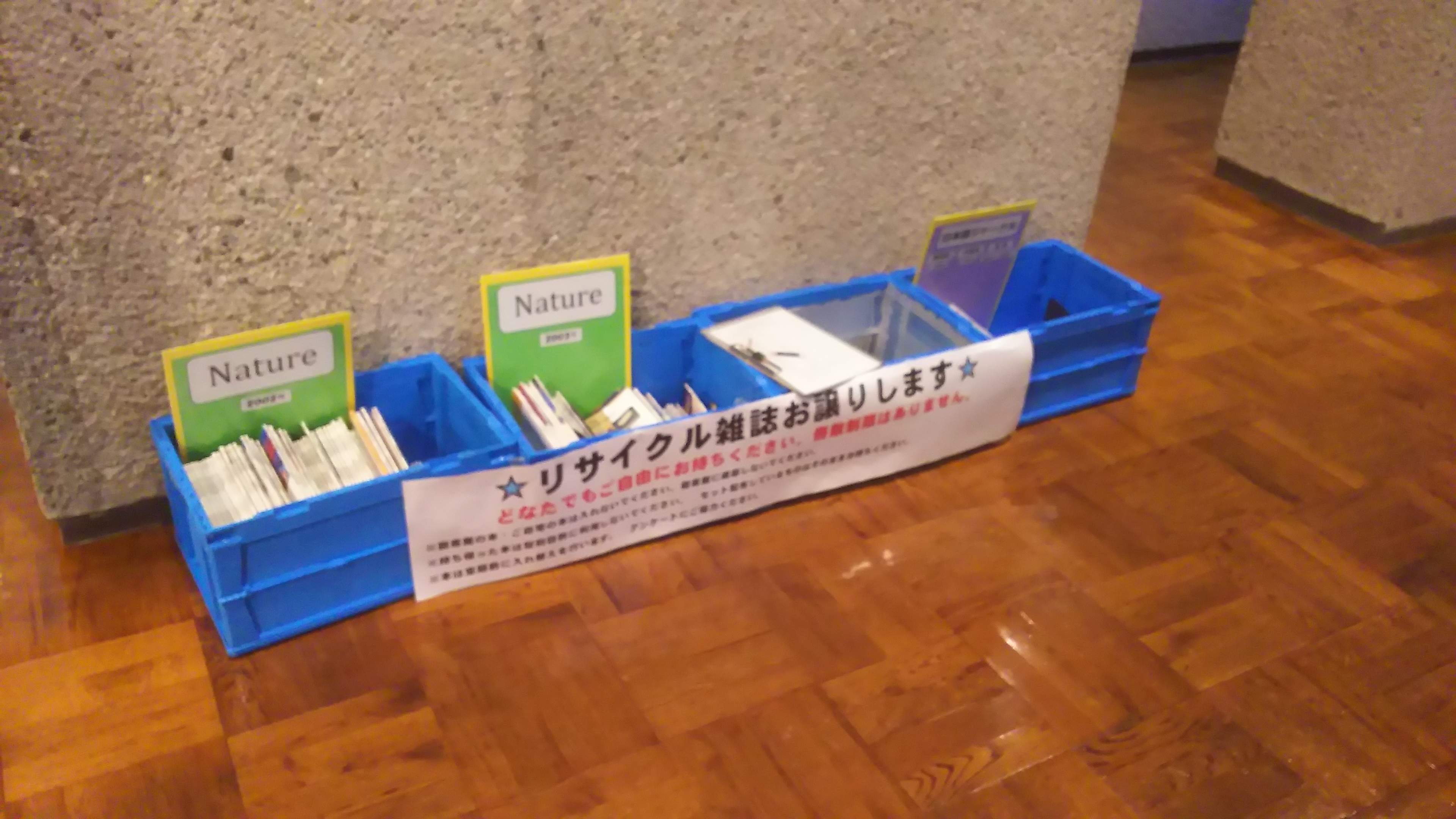 This is a distribution corner of weeded magazines. It is in Tsukuba public library, Ibaraki, Japan.